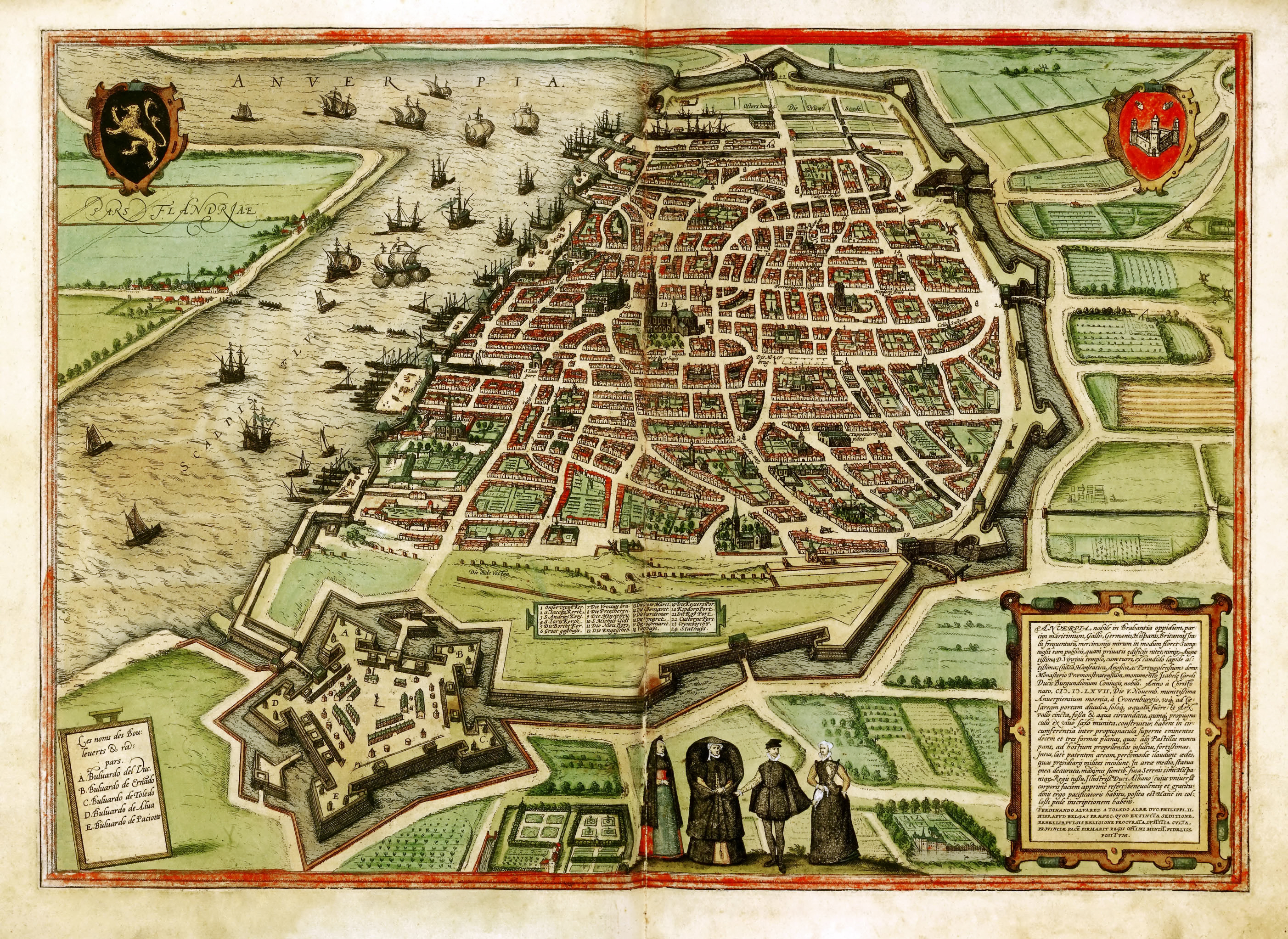 Antwerp, Belgium, Braun and Hogenberg, 1572-79 jpg